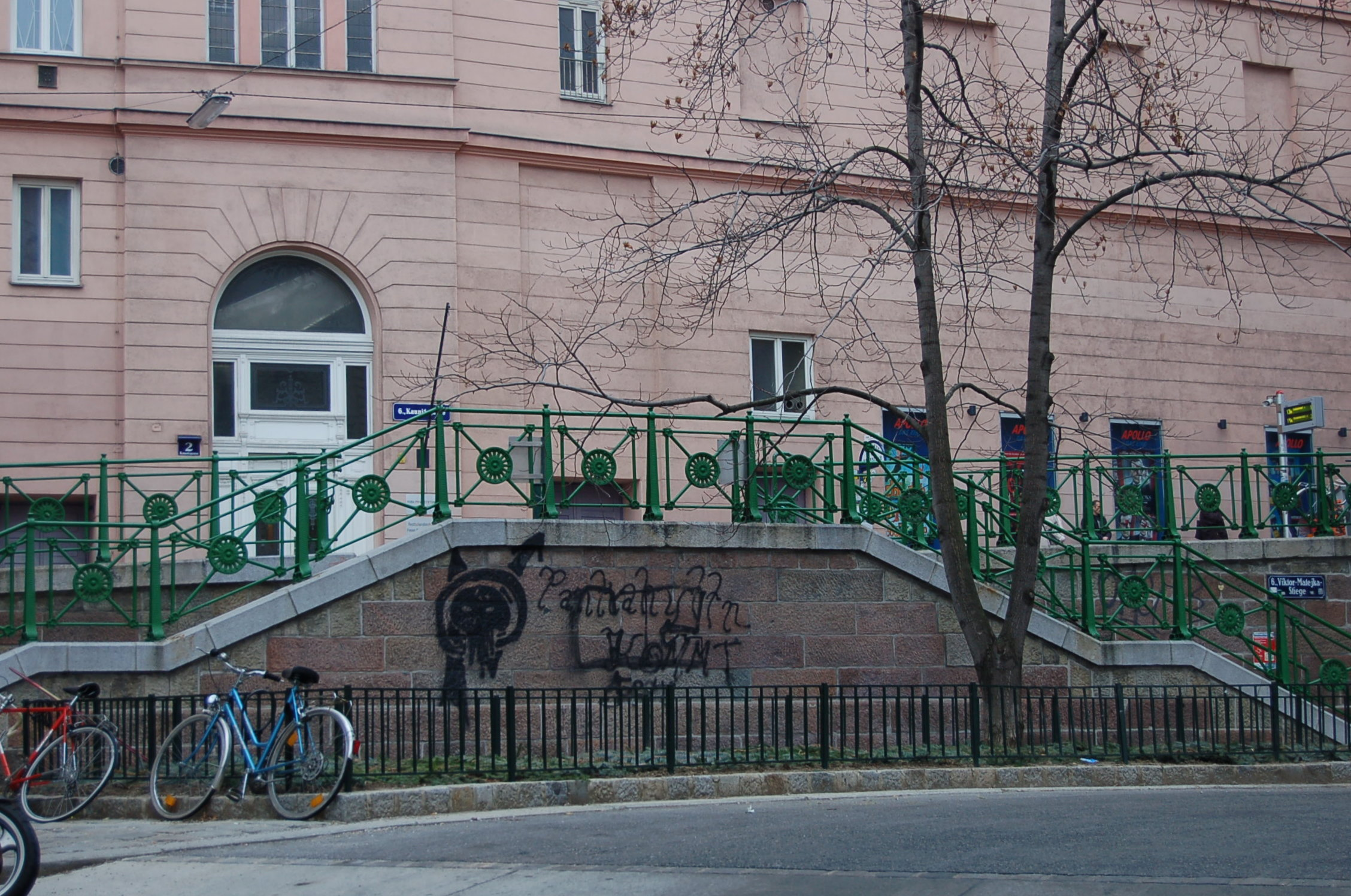 Viktor-Matejka-Stiege, Vienna's 6th district